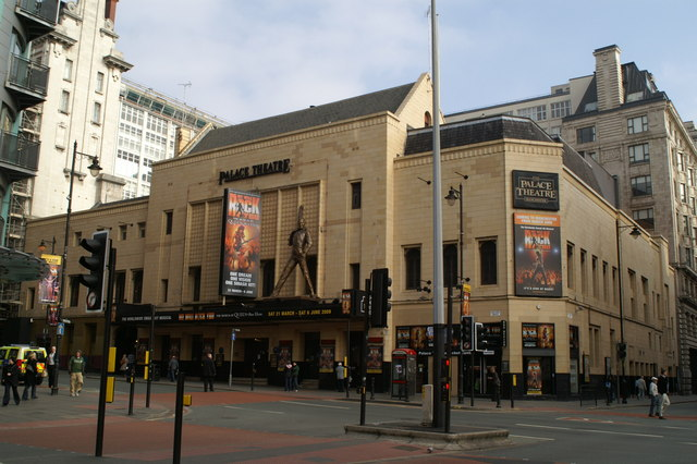 The Palace Theatre, Oxford Road